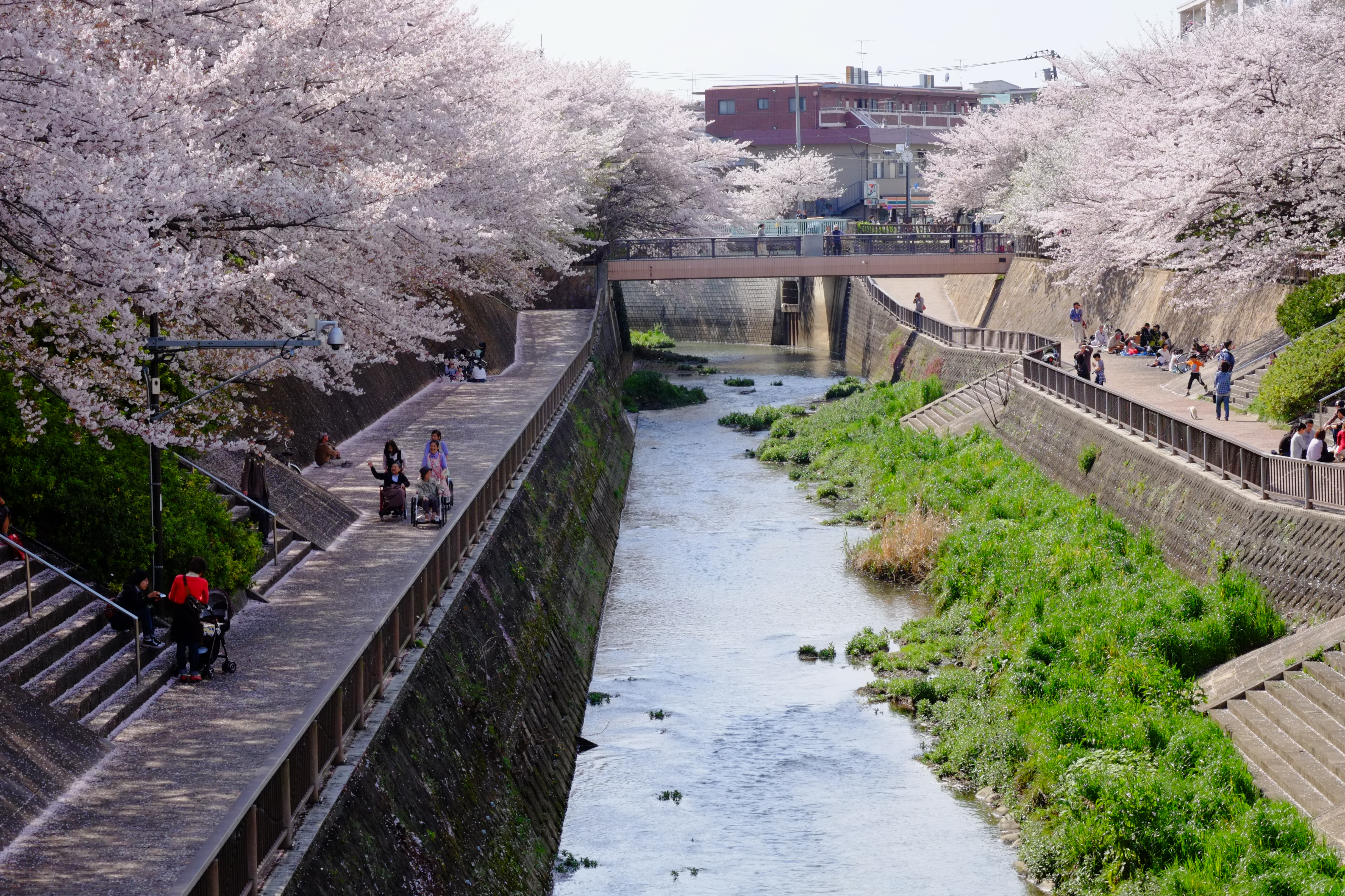 Shakujii River in Tokyo.